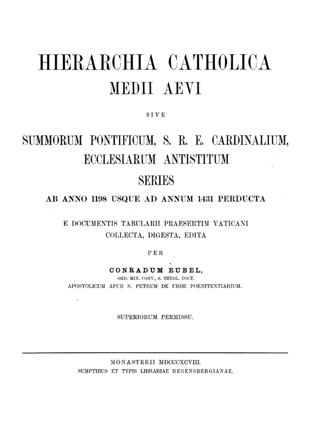 Hierarchia catholica medii aevi… Vol. I (1198-1431)